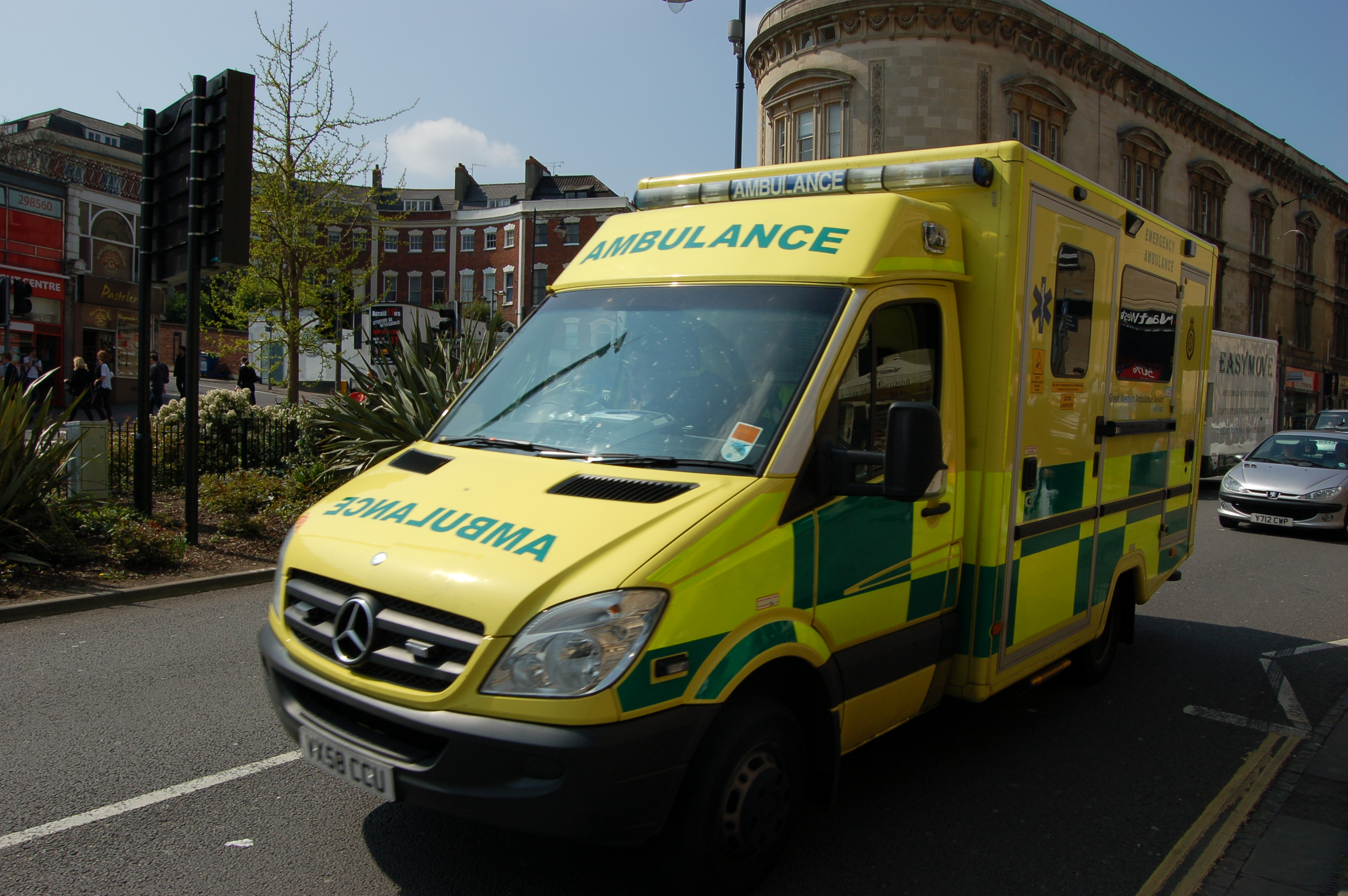 Photograph of a Mercedes-Benz Sprinter ambulance of the Great Western Ambulance Service, as seen in Bristol in April 2009. With "AMBULANCE" in mirror writing ("ECNALUBMA")